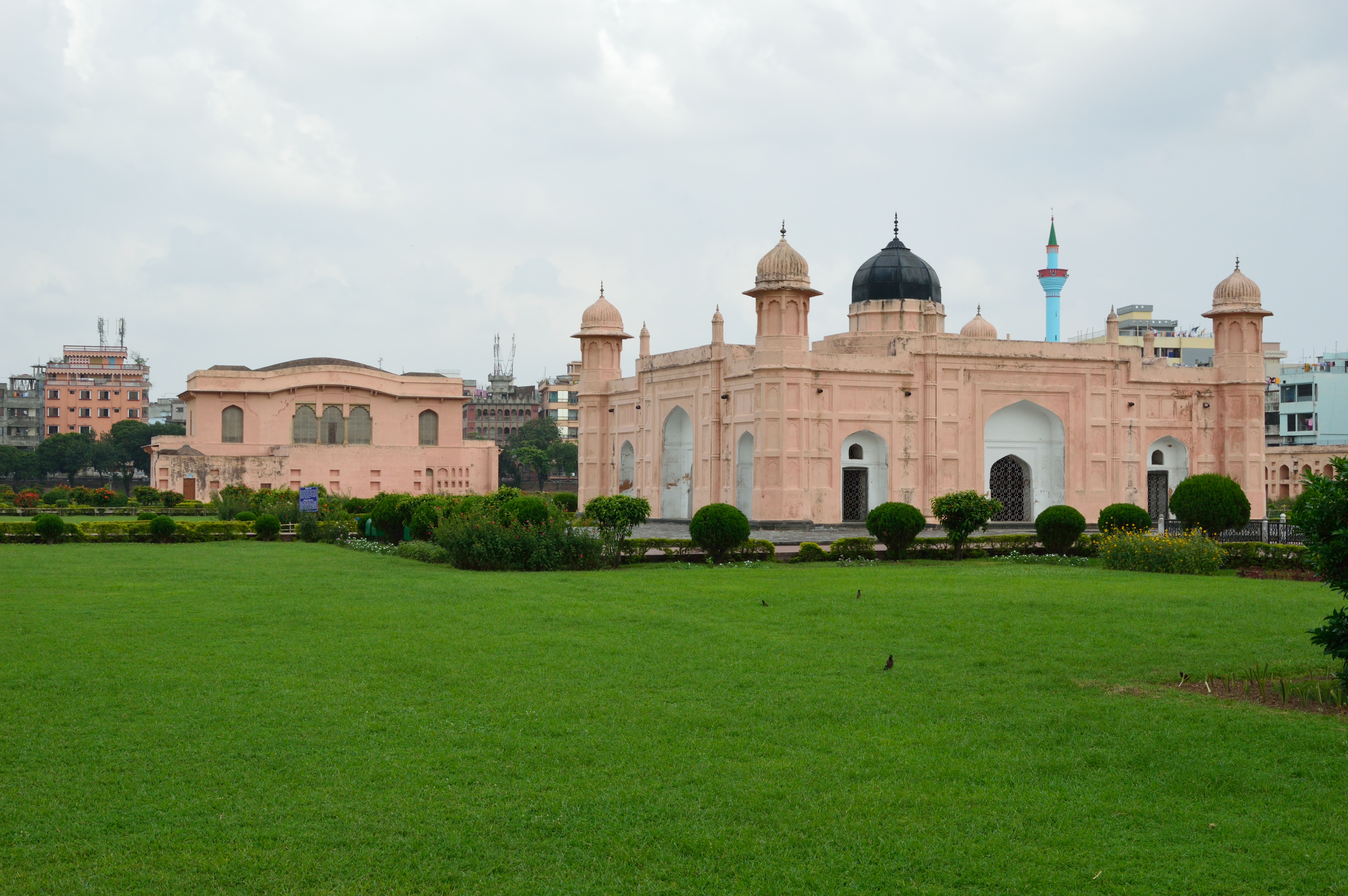 This photograph has been taken in Dhaka, Bangladesh.